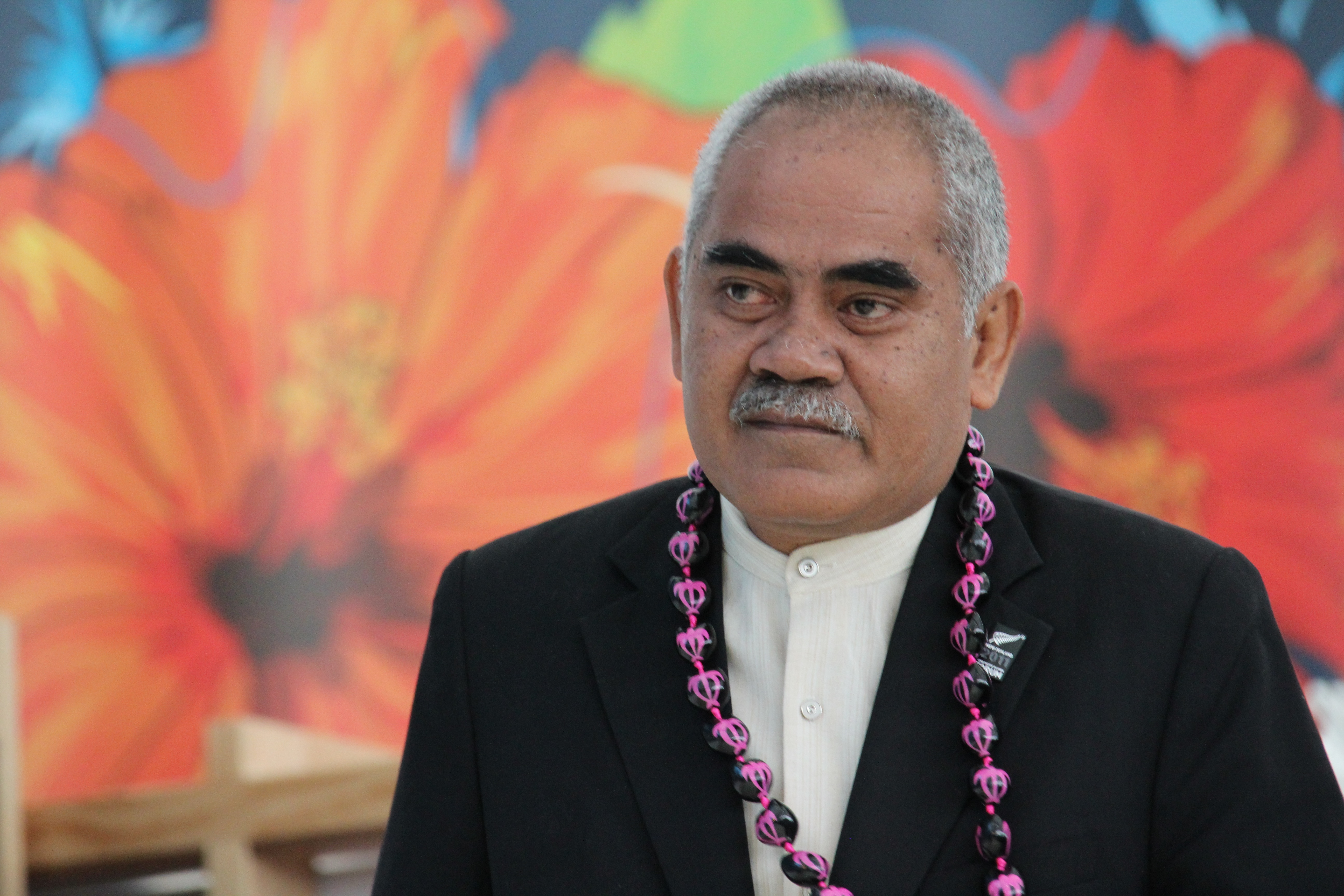 The Prime Minister of Tuvalu, Willy Telavi, at the 42nd Pacific Islands Forum in Auckland